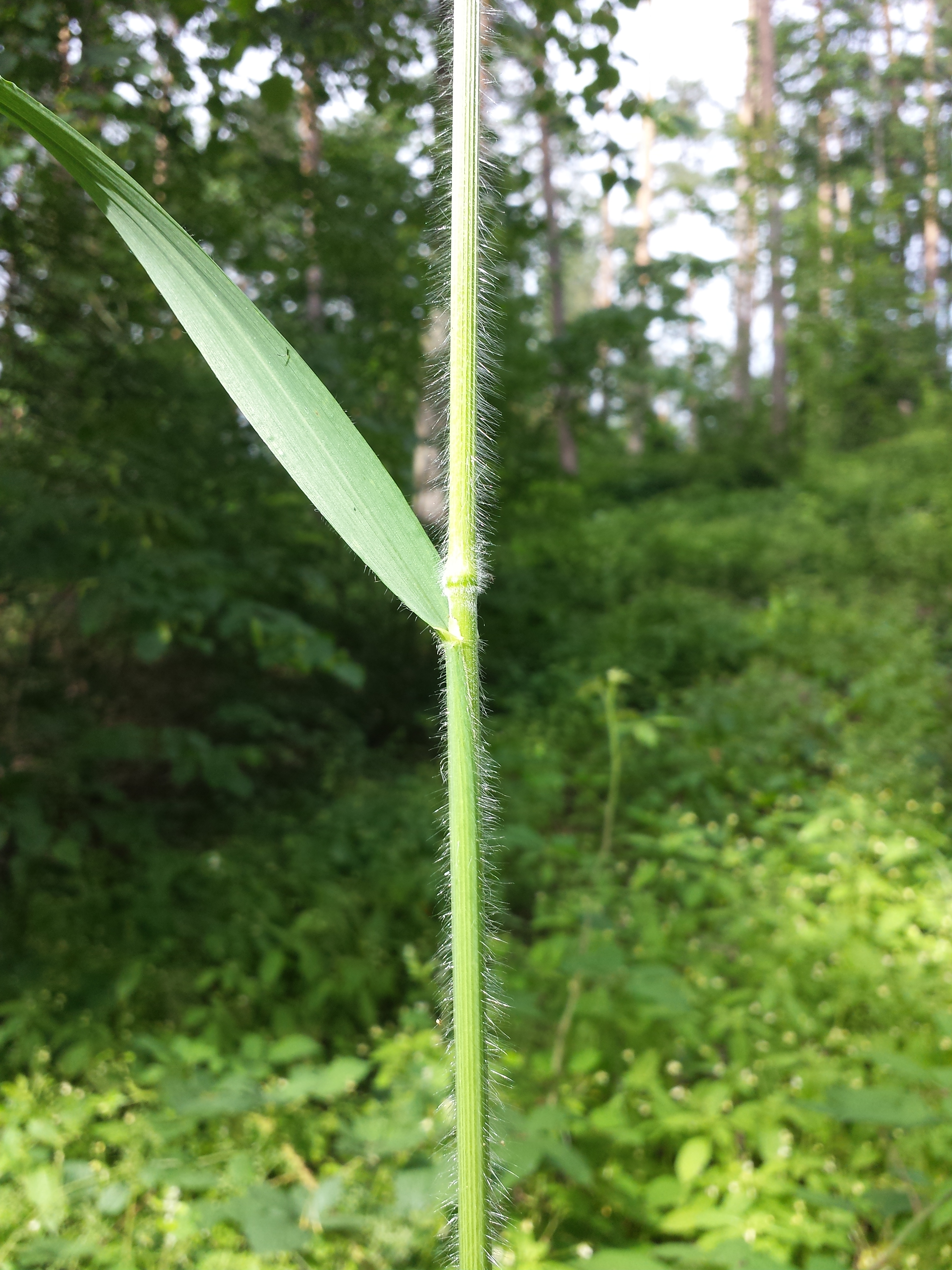 Stem with leaf sheath and leaf Taxonym: Bromus ramosus ss Fischer et al. EfÖLS 2008 ISBN 978-3-85474-187-9 Location: Ernstbrunner Wald west to Klement, district Korneuburg, Lower Austria - ca. 330 m a.s.l. Habitat: wood